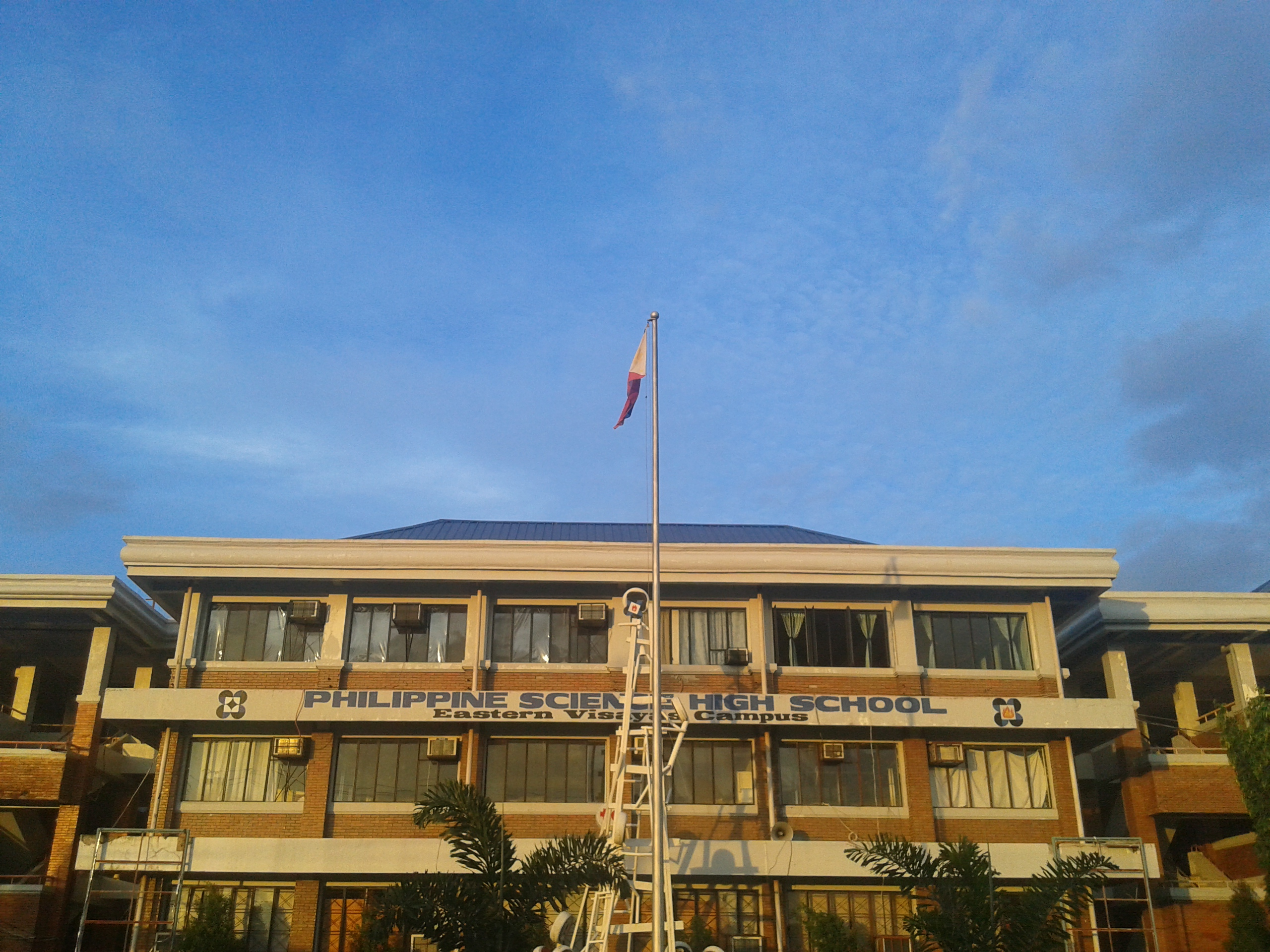 The facade (Academic Building Annex) of the Philippine Science High School - Eastern Visayas Campus in Pawing, Palo, Leyte.